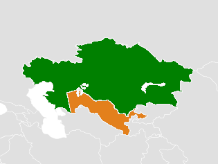 Map of the world indicating Kazakhstan and Uzbekistan